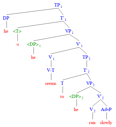 movement example